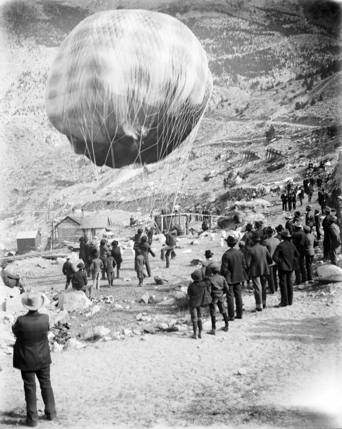 Hot Air Balloon, Georgetown, Colorado